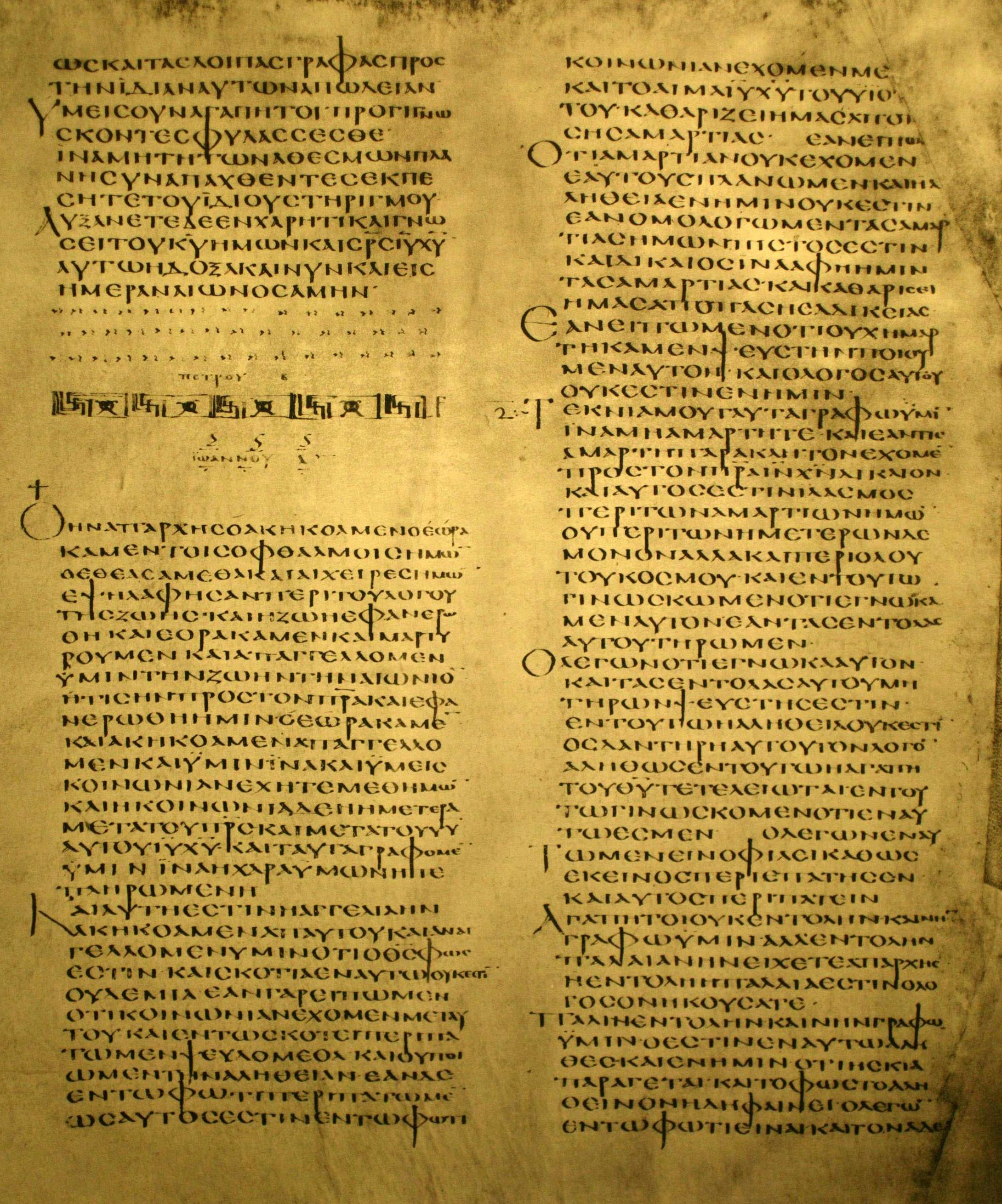 End of the Second Epistle of Peter and beginning of the First Epistle of John in the same column of the codex.